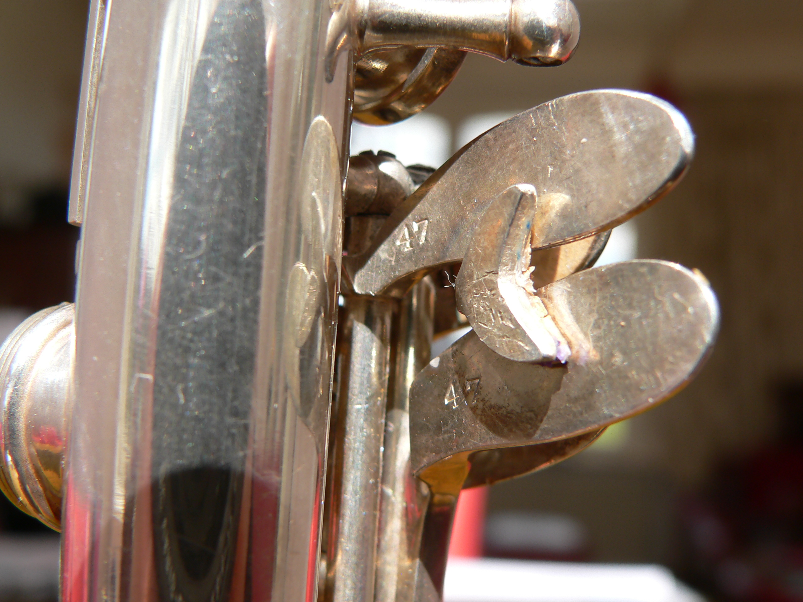 Silva Bet silver clarinet S5047. The last two positions of the serial number are stamped on the keywork.